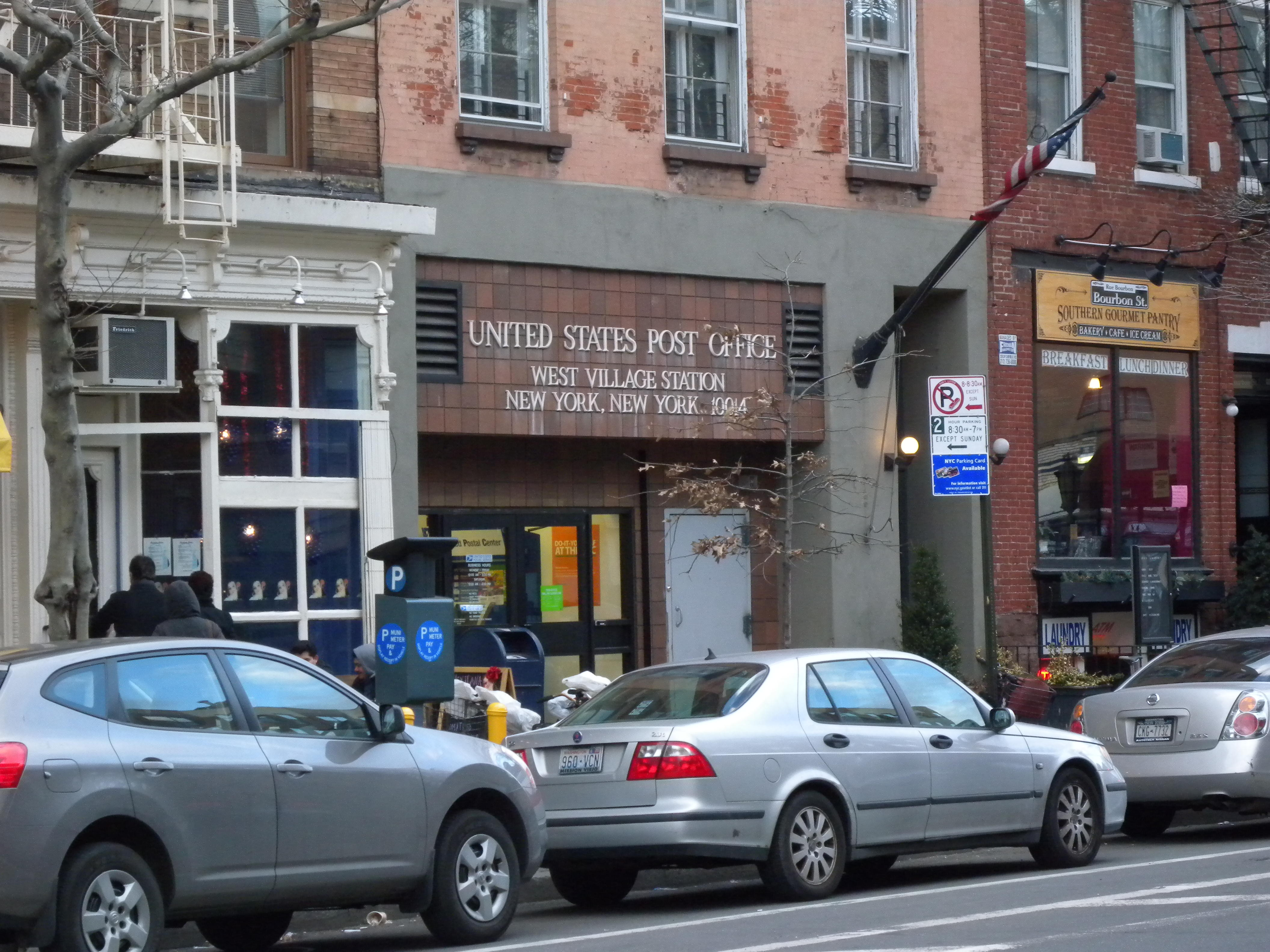 Looking west across Hudson Street at West Village Station of USPS, 527 Hudson, ZIP code 10014 on a cloudy afternoon.